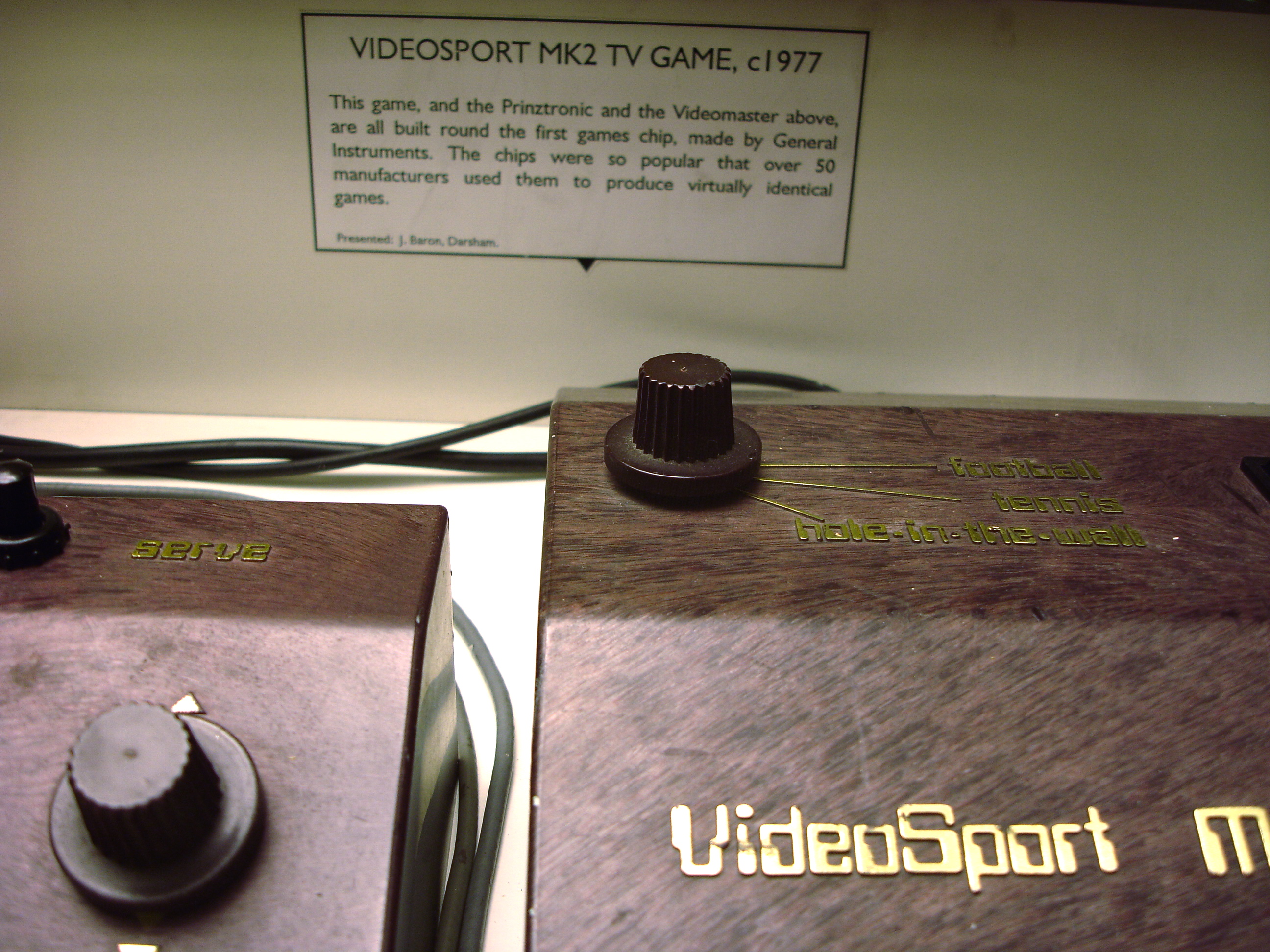 Video Sport MK2 TV Game, c.1974 This game, and the Prinztronic and the Videomaster above, are all built around the first games chip, made by General Instruments. The chiops were so popular that over 50 manufacturers used them to produce virtually identical games. “VideoSport?...” Flickr Tags: London England Travel UK Museum science history detail game video game science museum.